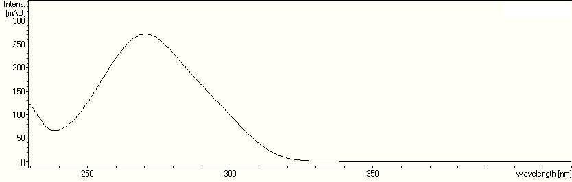 Spectrum of gallic acid